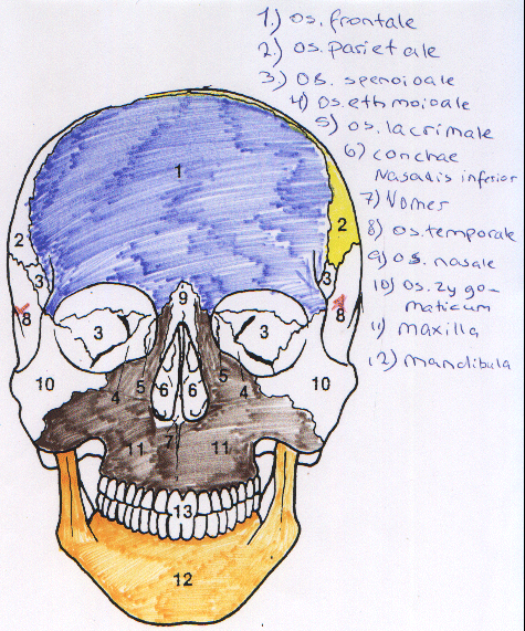 Diagram of bones of the human skull.